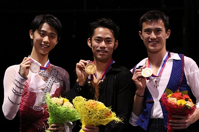 The men's podium at the 2012-2013 Grand Prix of Figure Skating Final. From left: Yuzuru Hanyu (2nd), Daisuke Takahashi(1st), Patrick Chan (3rd)